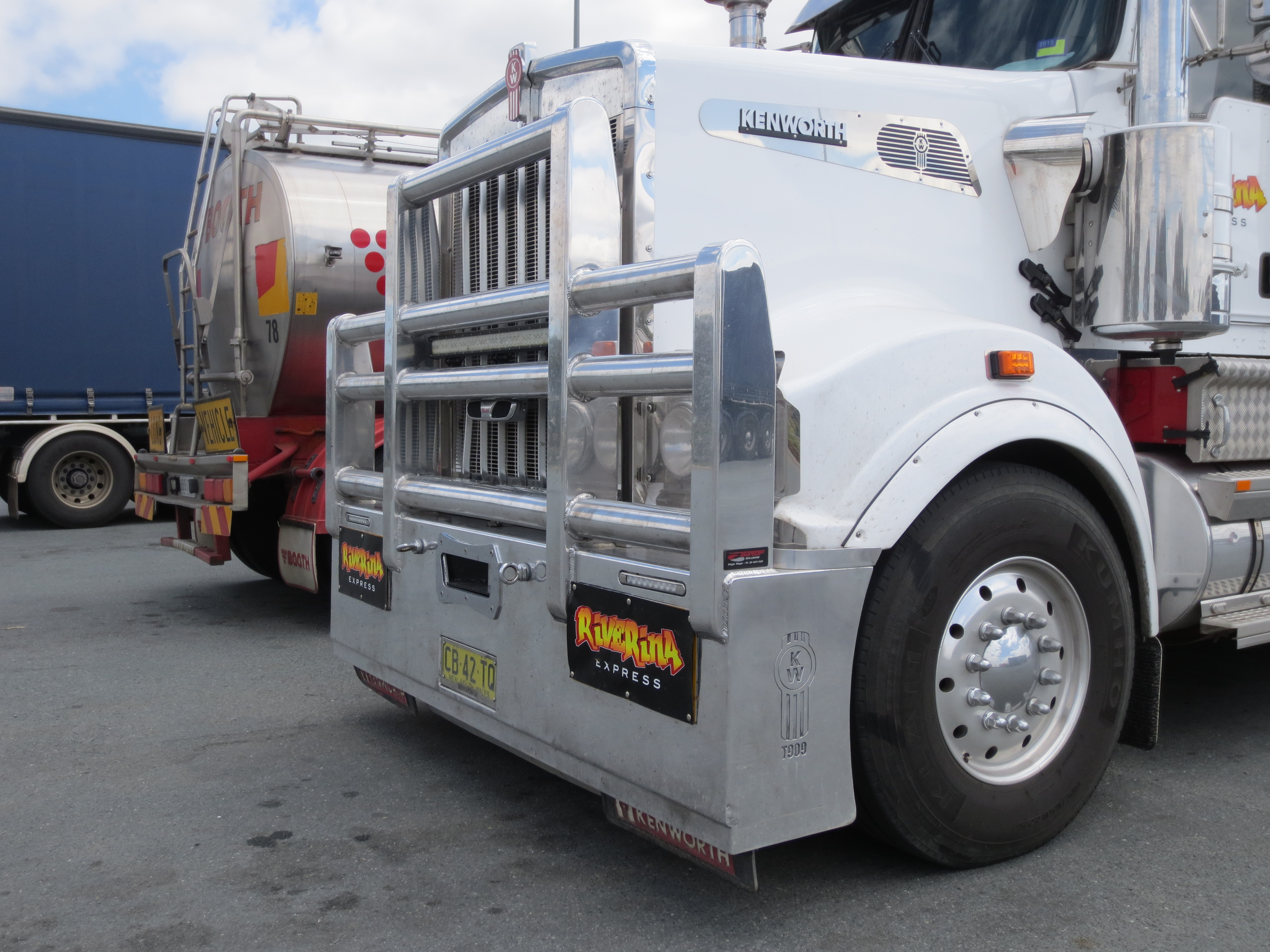 bull bar on b double semi trailer at Yass truck stop on the Hume Valley